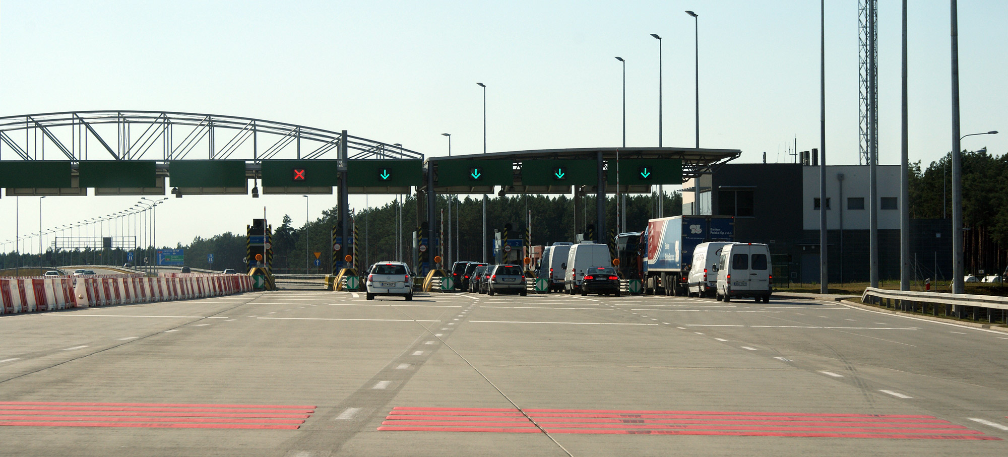 Tarnawa toll plaza, direction of Świecko